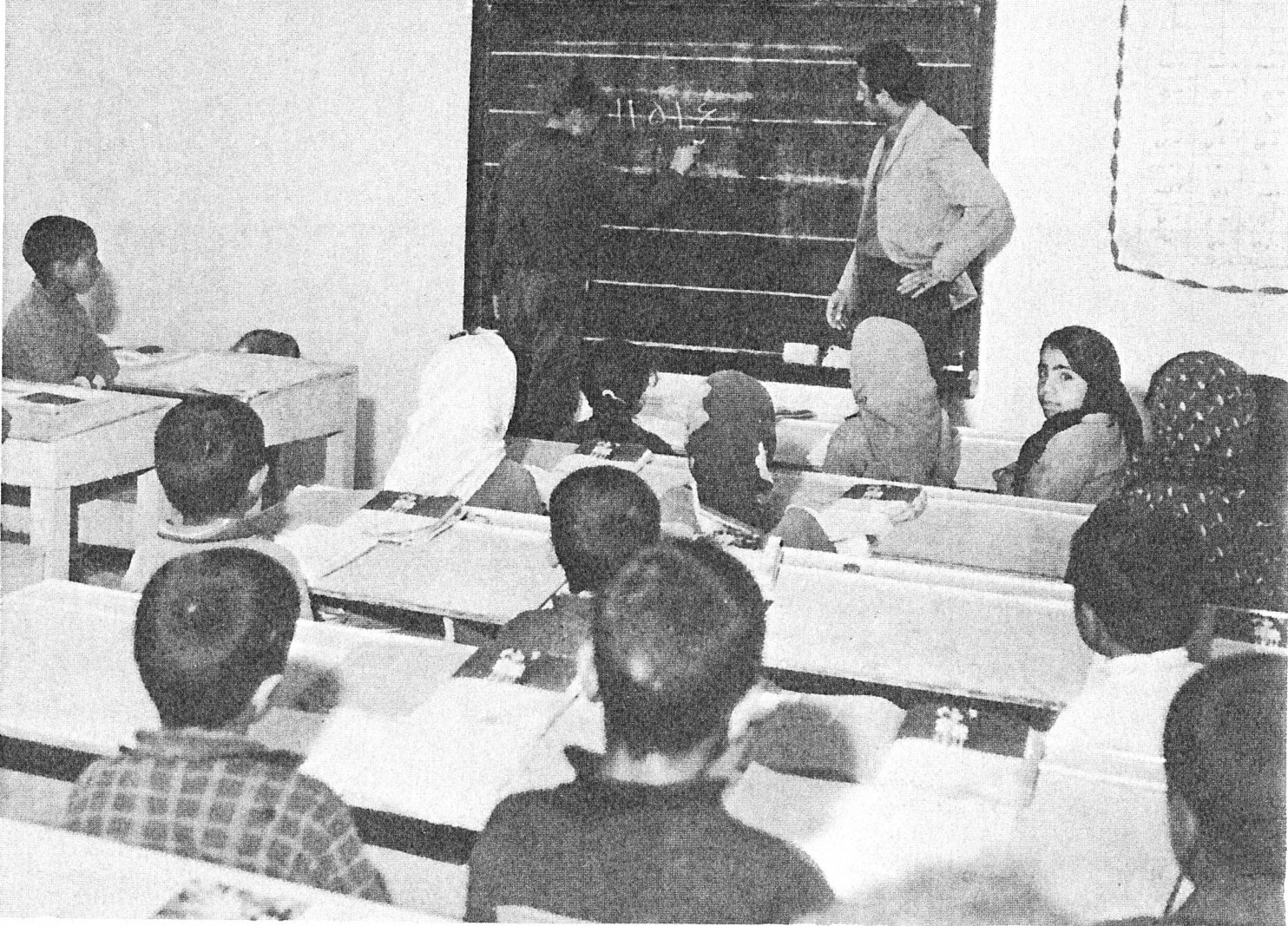 school at Behkadeh Raji, leper colony, 1975